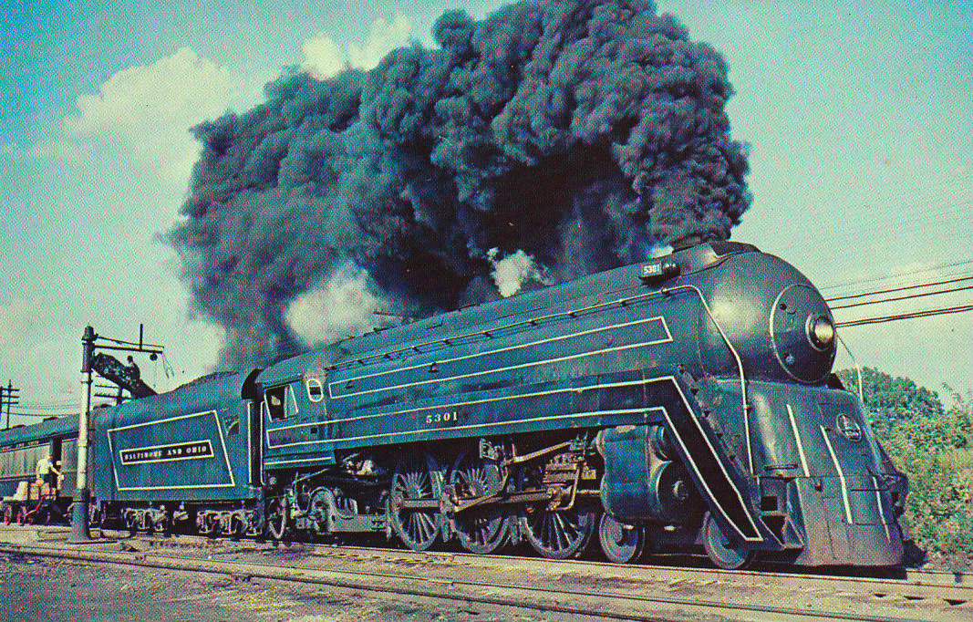 Postcard photo of the Baltimore and Ohio train The Cincinnatian when it was a streamlined steam locomotive. The locomotive shown is #5301, "The President Adams", a 4-6-2 Pacific style locomotive. The photo was taken in July 1956; a few months later, the train was powered by a diesel locomotive.